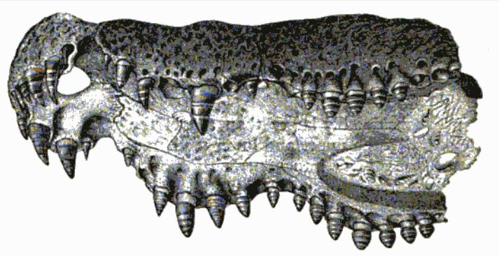 Oblique left lateral and palatal view of the facial part of the cranium of Diplocynodon hantoniensis. Illustration from A manual of palaeontology for the use of students, with a general introduction on the principles of palaeontology (Vol. II) by Henry Alleyne Nicholson and Richard Lydekker (1889).